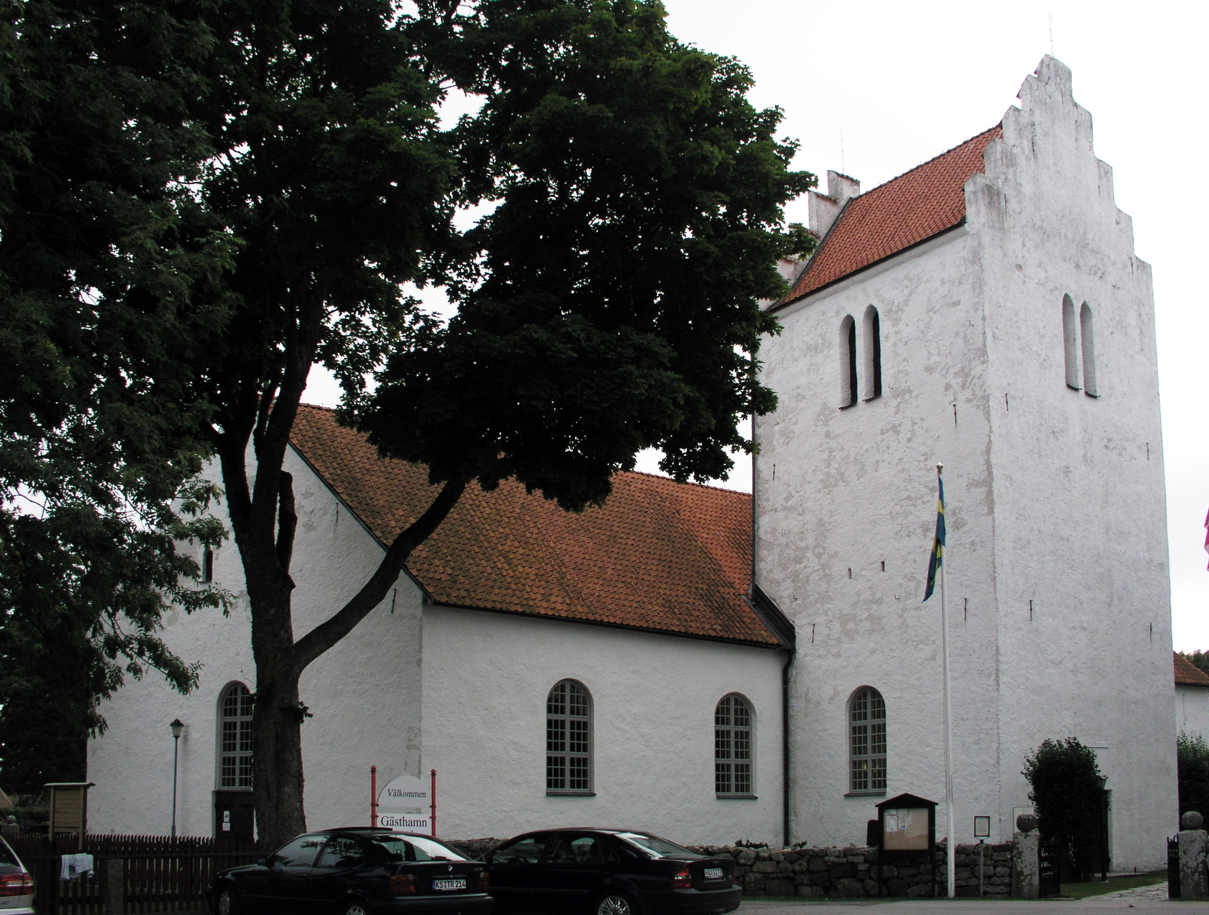 Kristianopels kyrka / church. View. The picture was taken the 5th of August 2005 by Håkan Svensson (Xauxa).